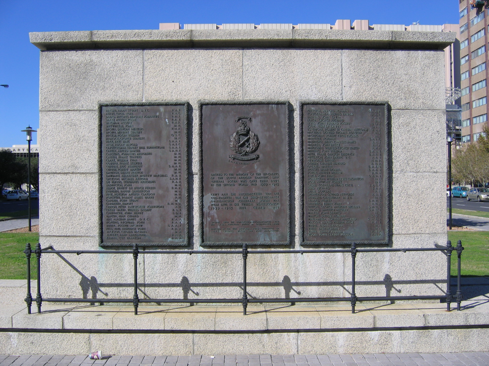 Memorial plaque to ex-cadets of the South African training ship "General Botha" who perished in World War II. Located in Cape Town (just off Adderley Street), South Africa.